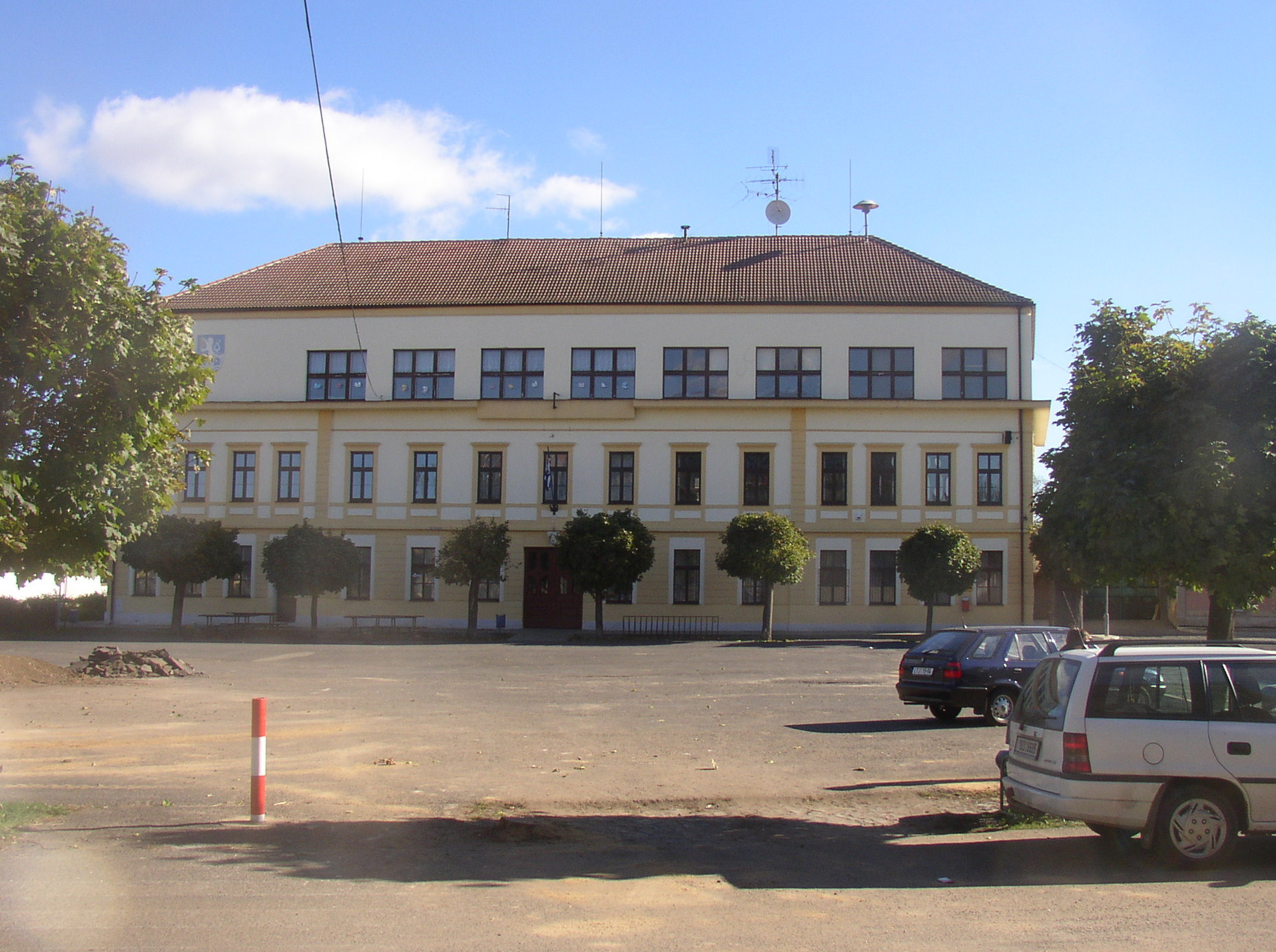 Bohušovice nad Ohří, Litoměřice District, Czech Republic. Town hall in eastern side of Hus Square (during repaving of the area in autumn 2005).